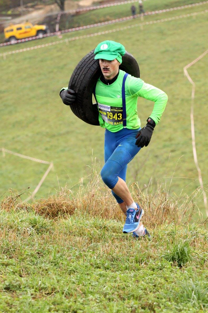 Hagen Brosius @ Getting Tough The Race